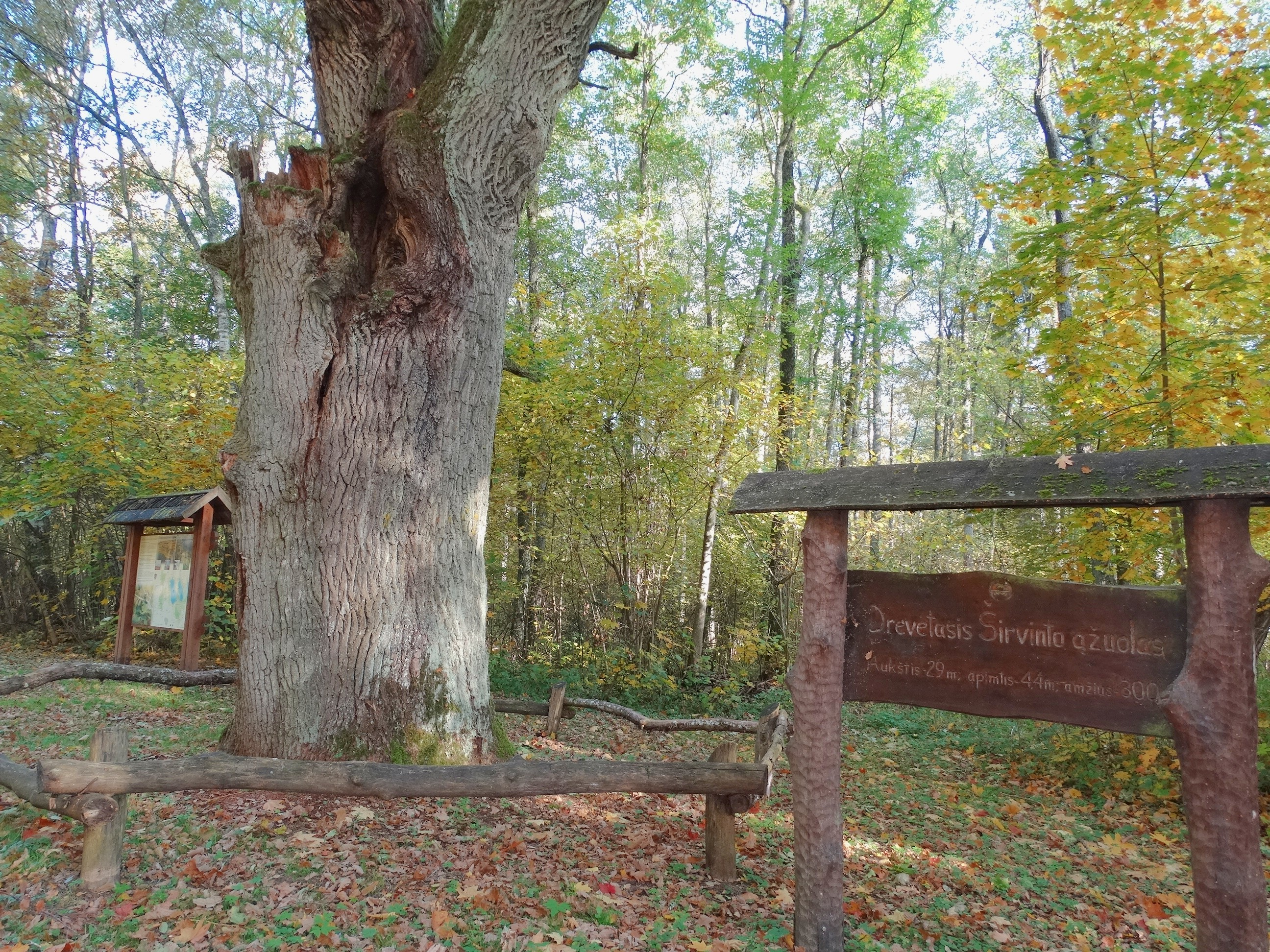 Drevėtasis Širvinto Oak, Lazdijai district, Lithuania